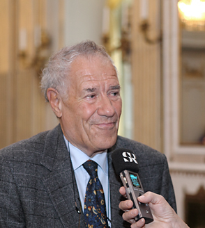 Per Wästberg, writer, member of the Swedish Academy, Chairman of the Nobel Committee for Literature, at the announcement of the Nobel Prize in Literature 2011